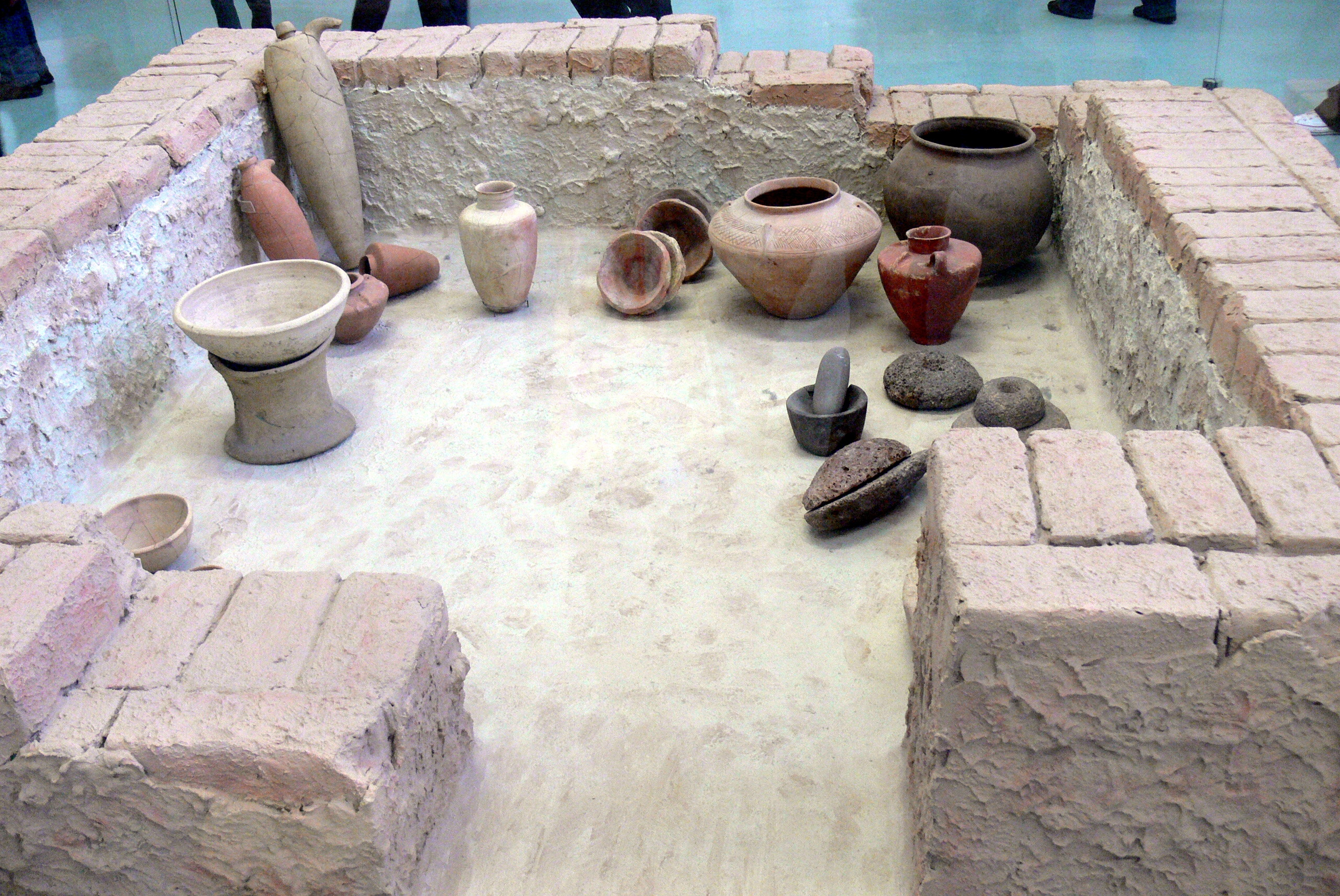 Museum of Ancient Near East ( Berlin ). Reconstruction of a house in Habuba Kanira ( 4th millenium BC ).